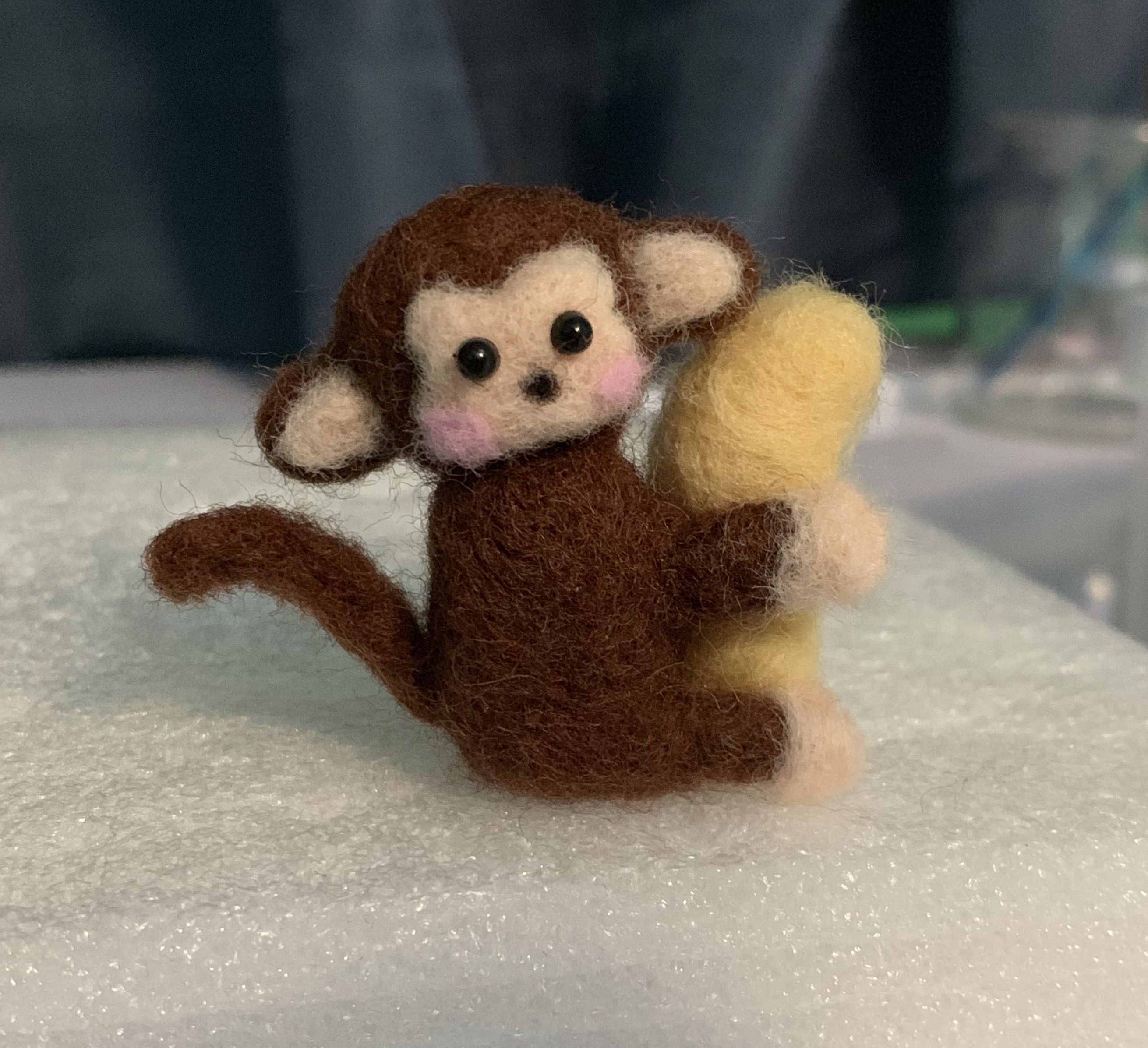 Needle felted monkey holding a banana.